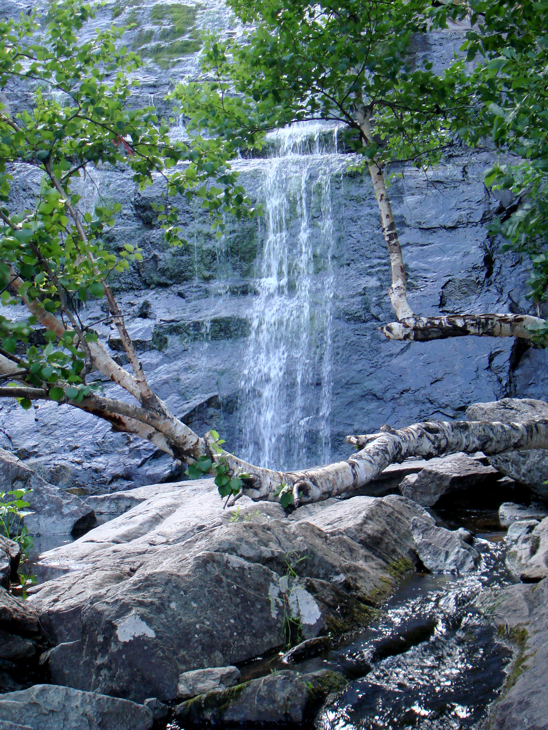 Hadelsha (aka Ibragimovsky) waterfall at autumn. Lower cascade.